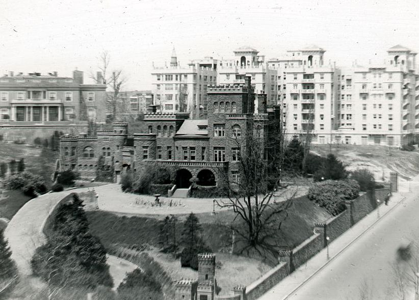 Built in 1888 for Senator John Brooks Henderson, the castle stood at the intersection of Florida Avenue and 16th Street, NW (northwest corner). Henderson was a skilled politician and was the man who drafted the Thirteenth Amendment to the Constitution. In 1949 the house was razed, with only the great stone entrance gate posts having survivied the wrecking ball.